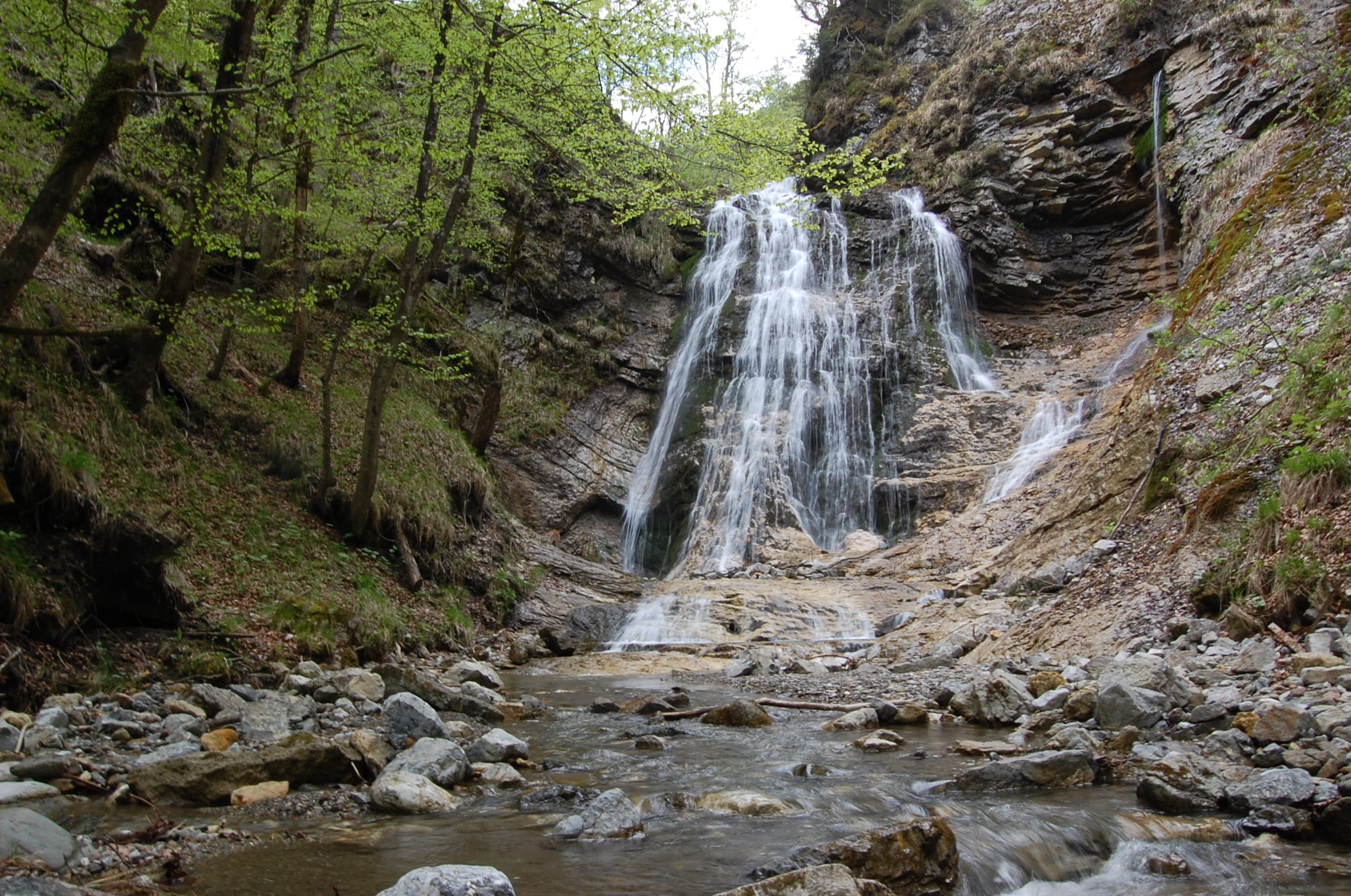 Waterfall (Jelendol, Dovžanova soteska, Tržič, Slovenia, spring 2008)